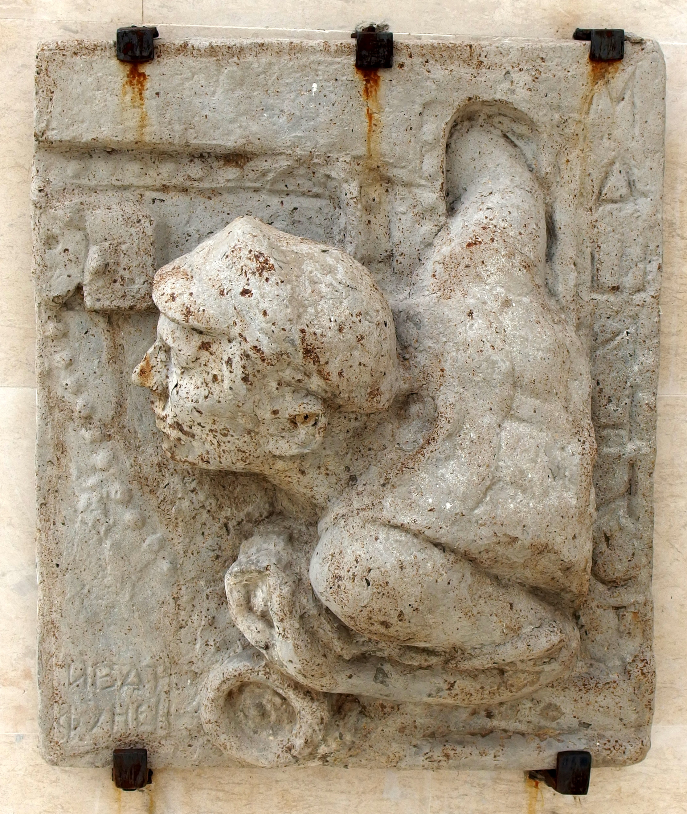 2014-06-15 in the Museum of socialist art (Sofia).